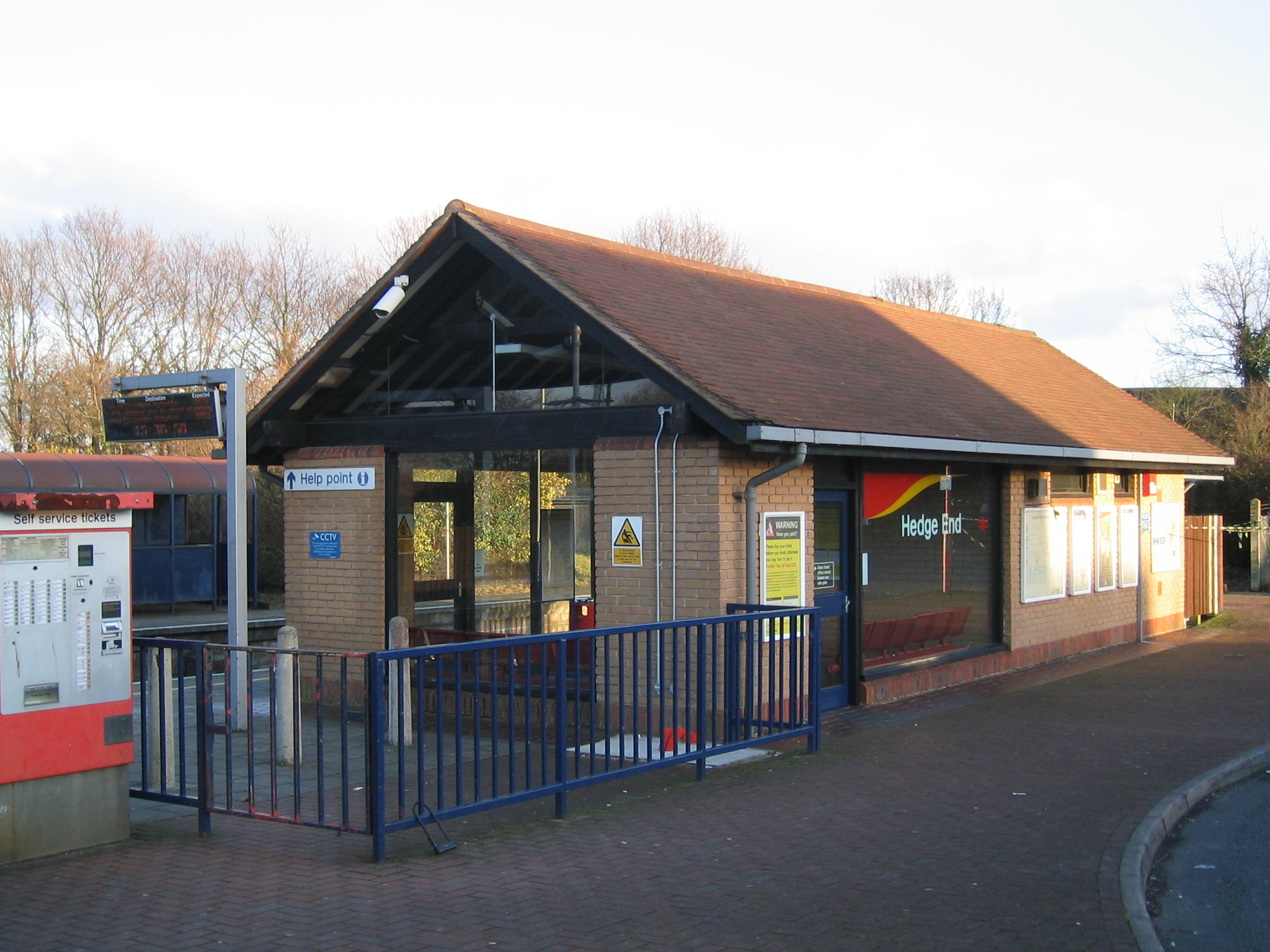 Hedge End railway station, Hedge End, Hampshire, UK. Photo taken by me 2006-01-21.